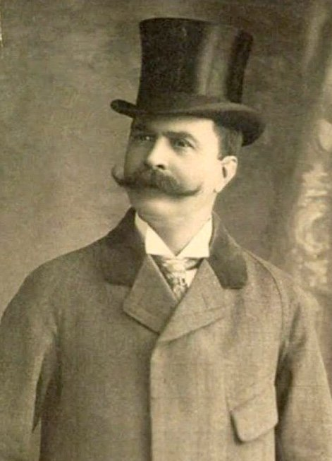 Morris Sinasi